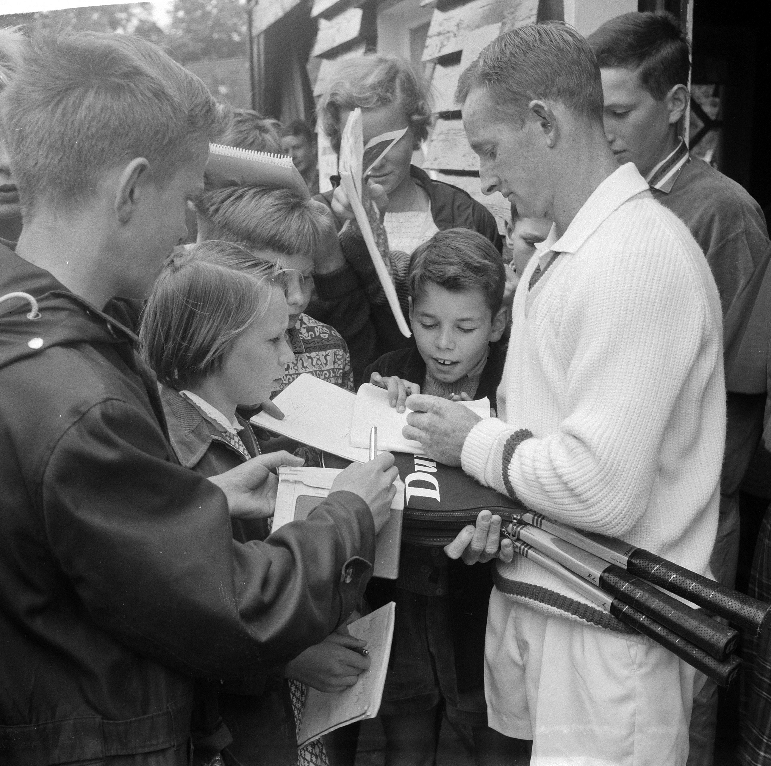 Tennis player Rod Laver signing autographs at the 1962 Dutch Championships in Hilversum